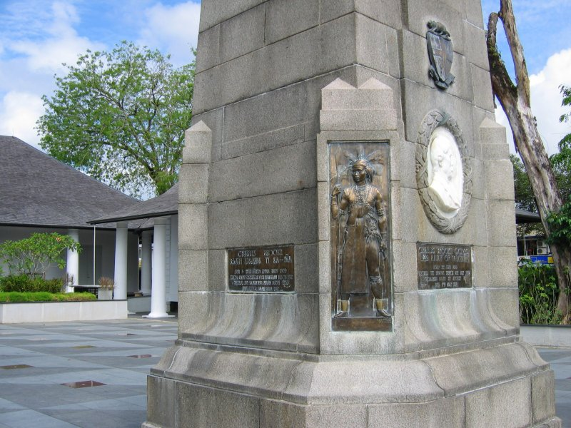 Author: Aron Paul 2004 Uploaded by Author for use by Creative Commons 2005. The foremost panel depicts an Iban (Dayak) warrior. The other corners depict a Chinese, a Malay and an Orang Ulu, representing the main 'races' that constituted the Kingdom of Sarawak under the Brooke dynasty. The plaques are similarly written in Iban, Chinese and Arabic script (Jawi) as well as in English. The profile at front is of Rajah Charles Brooke.